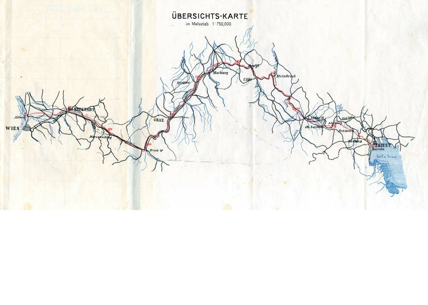 The plan of a canal that would link the Danube and the Adriatic Sea. Engineer Carl Wagenführer, 1900.